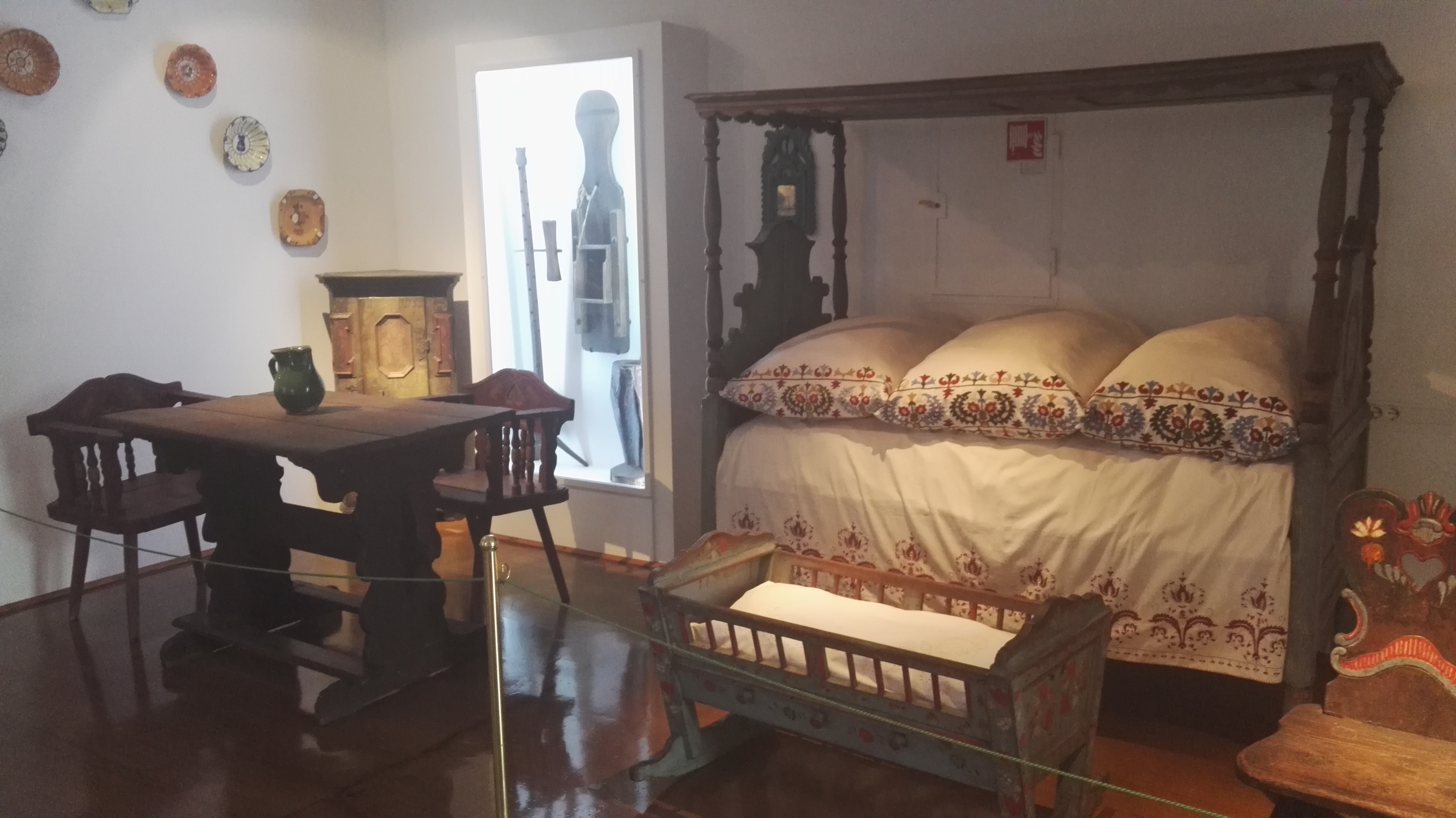 Ethnography collection of the Déri Museum, Debrecen, Hungary.